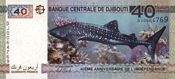 40 Djiboutian Francs in 2017 Obverse Commemorative